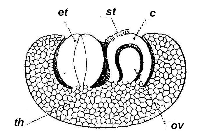 th - thallus, et – theca, ov – ovule, c – carpel, st – stigma